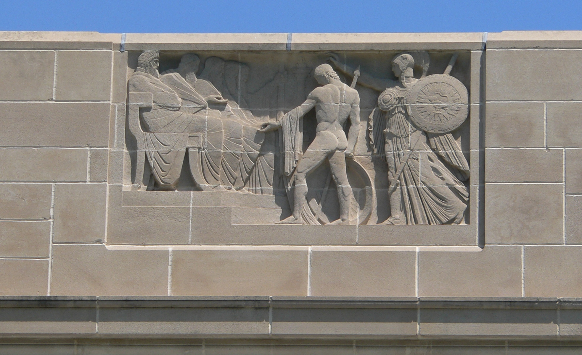 Nebraska State Capitol in Lincoln, Nebraska: west-facing panel at southwest corner of building, titled "Orestes before the Areopagites".